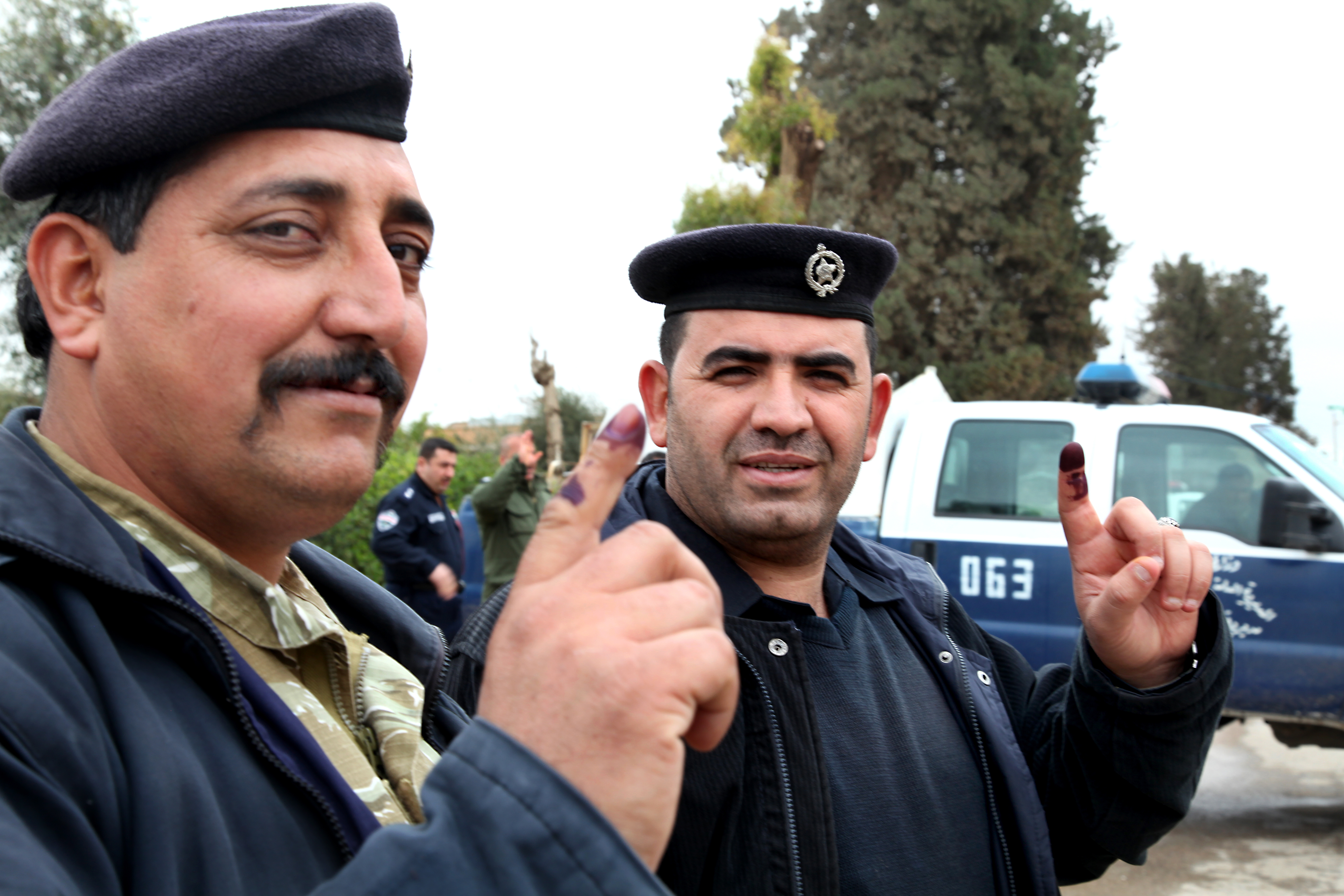 Iraqi policemen near a polling site lift their inked fingers to show they voted, Arapha, Iraq, March 4, 2010. Iraqi security forces were given the opportunity to vote early to assist in providing security on election day.